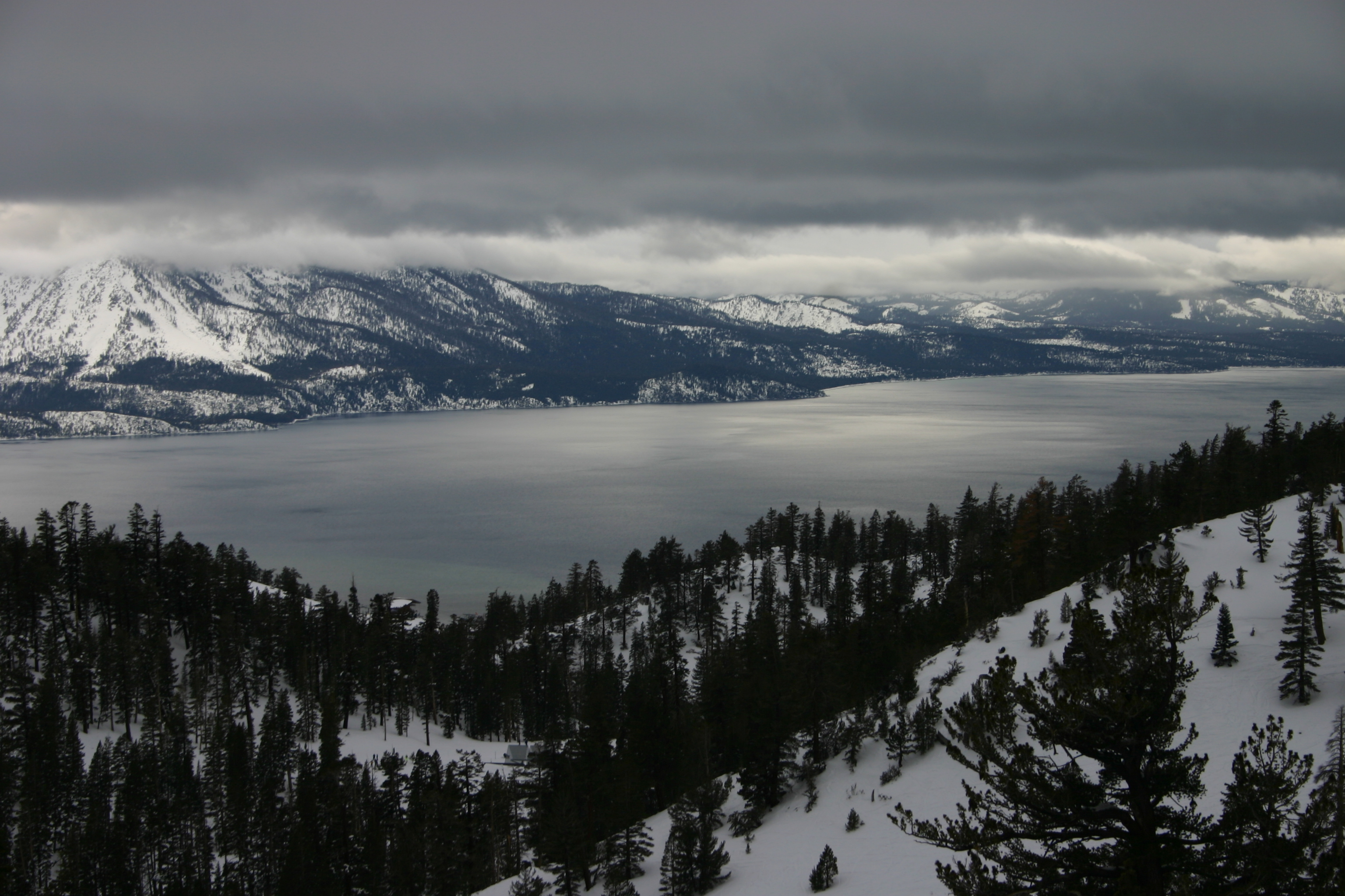 Lake Tahoe, March 2004